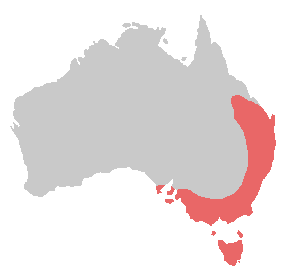 Summary Distribution map of the Yellow-tailed Black Cockatoo (Calyptorhynchus funereus) Based on Image:BlankMap Australia.png Kiwifruitboi 08:58, 10 January 2006 (UTC)